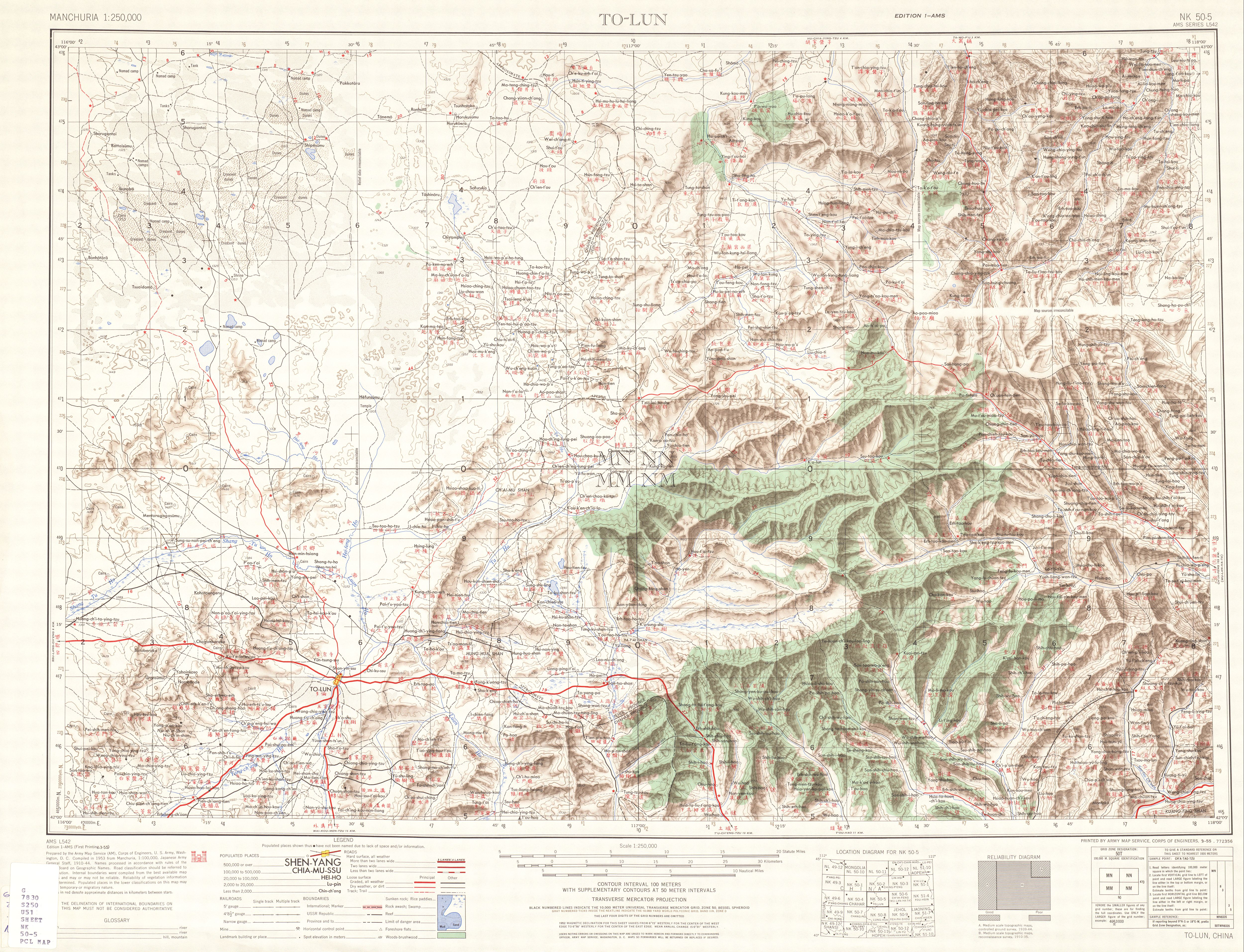 Manchuria AMS Topographic Maps